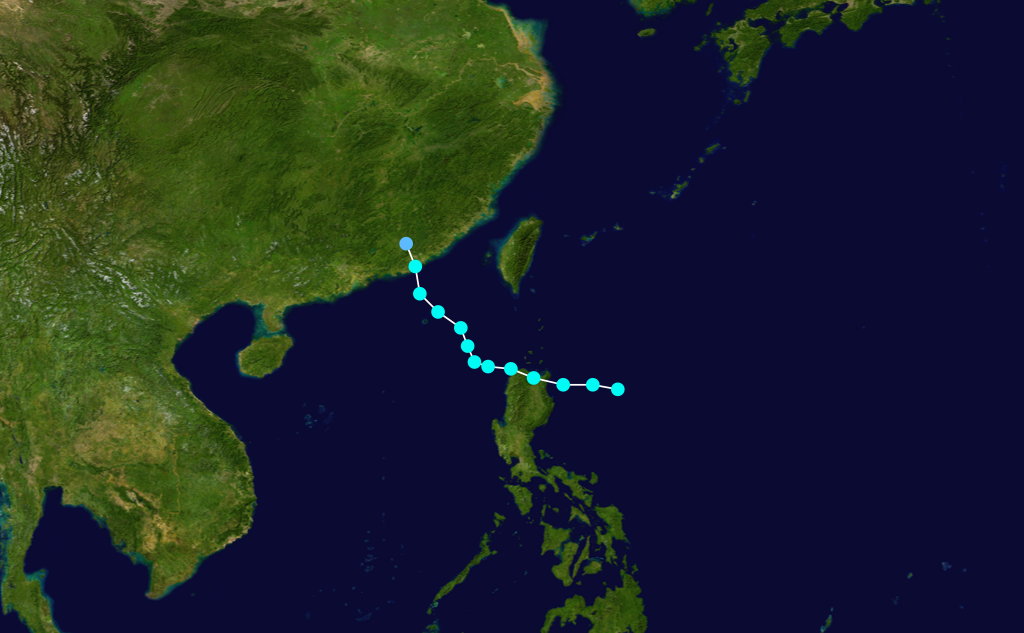 Tropical Storm June 1984 track. Uses the color scheme from the Saffir-Simpson Hurricane Scale.